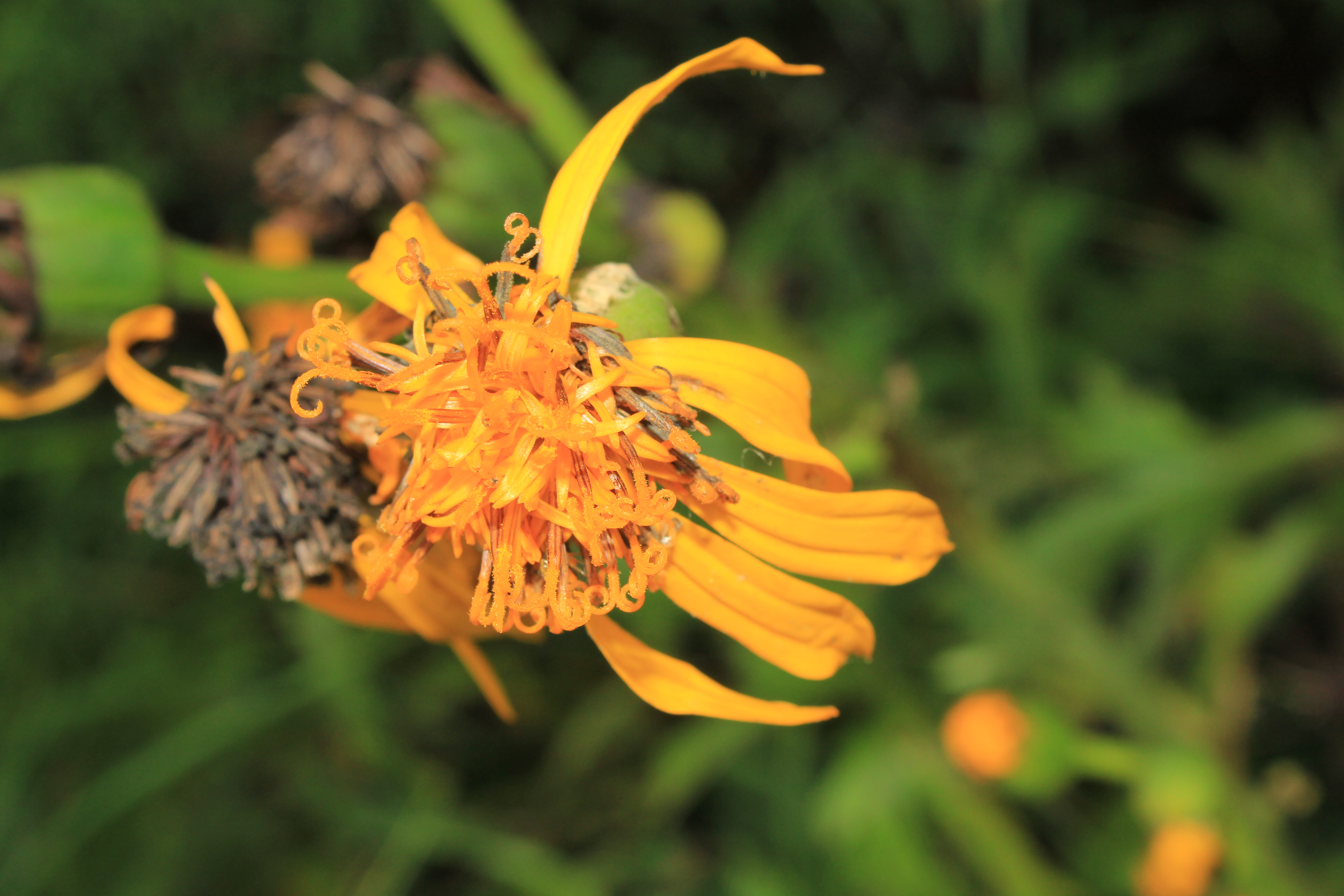 Flowers of Ligularia japonica at Mt. Huangzui Ecological Protected Area, Yangmingshan National Park, Taipei, Taiwan.